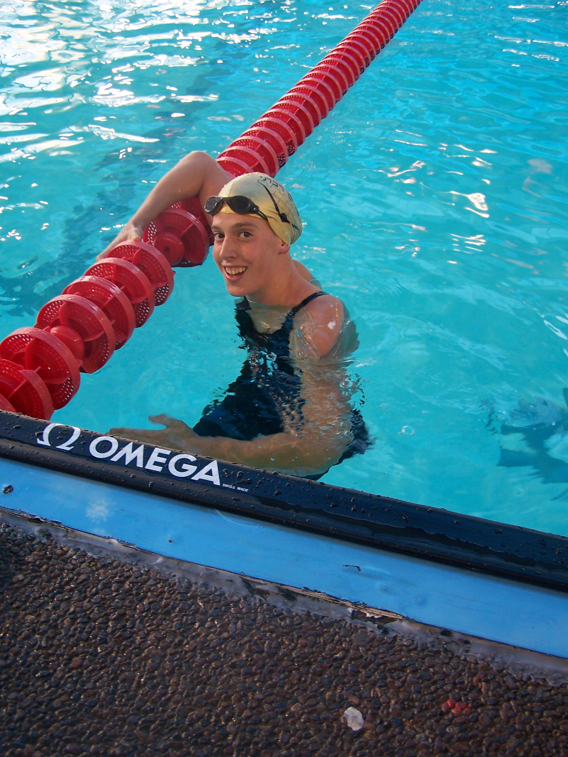 Efrat Rotshtian won a gold medal in 200 free in the Israelian Championships in swimming 2010